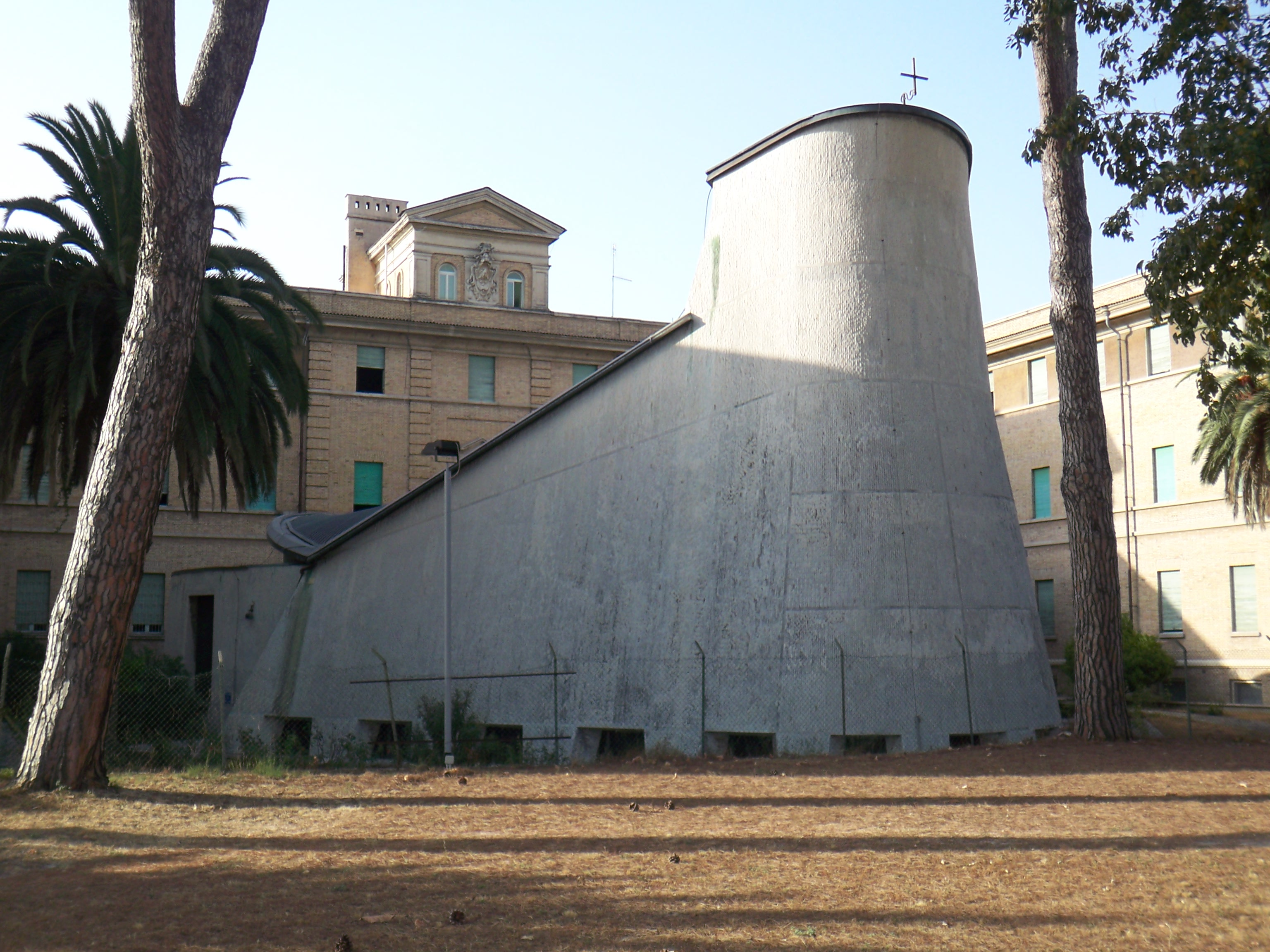 Exterior view of the chapel "Collegio Pio Brasiliano", via Aurelia 527, Roma, Italy. (Built 1963-67 by Silvio Galizia)